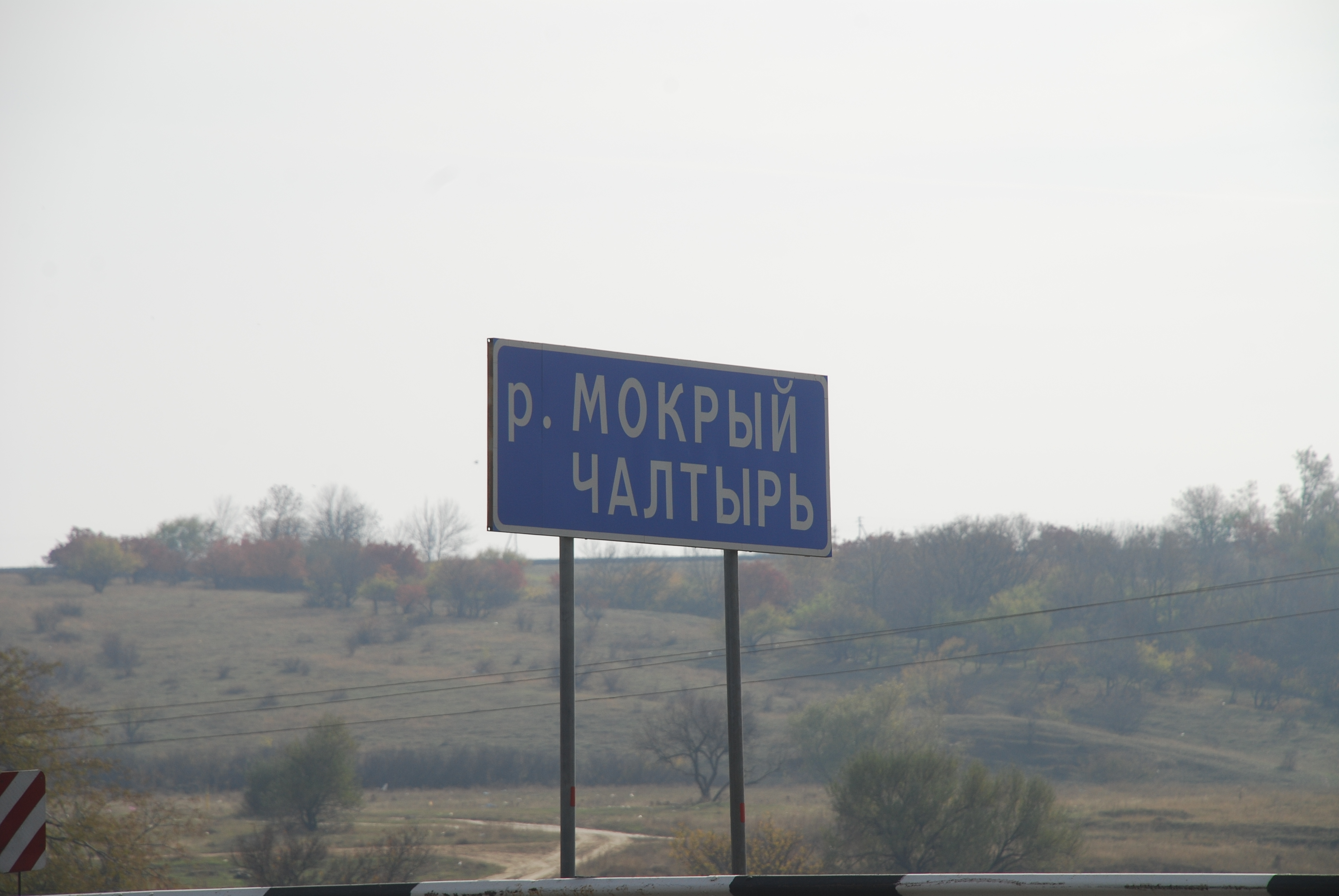 Mokry Chaltyr River guide sign.